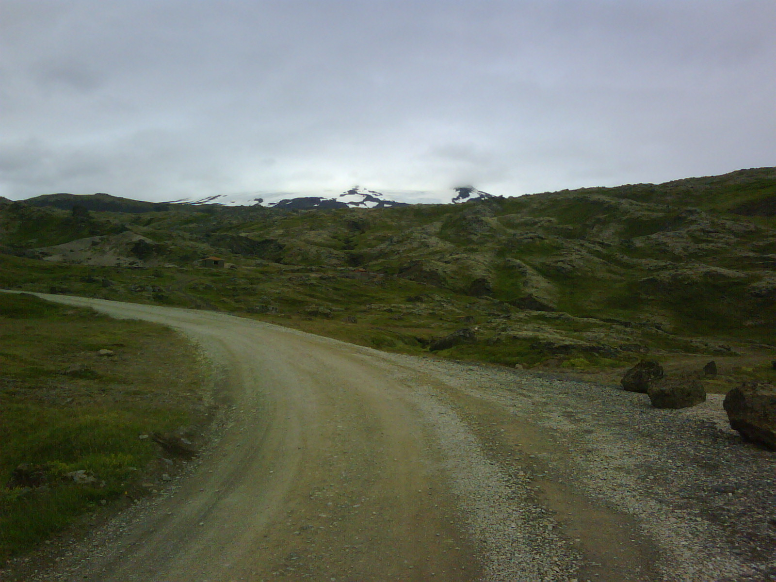 Road 570